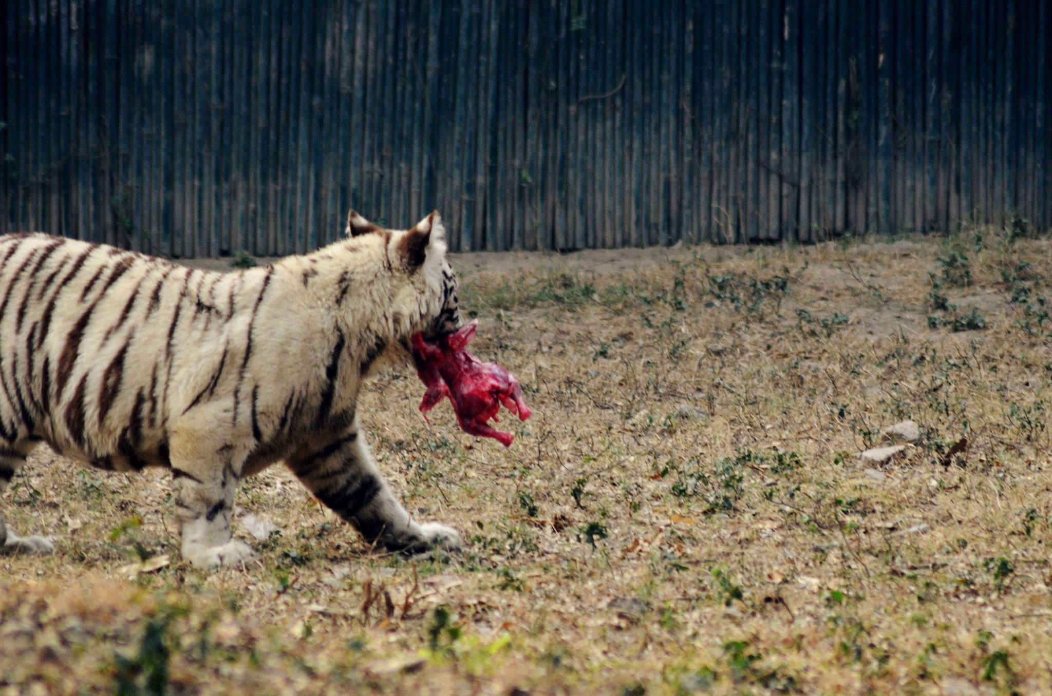 White tiger eating chicken